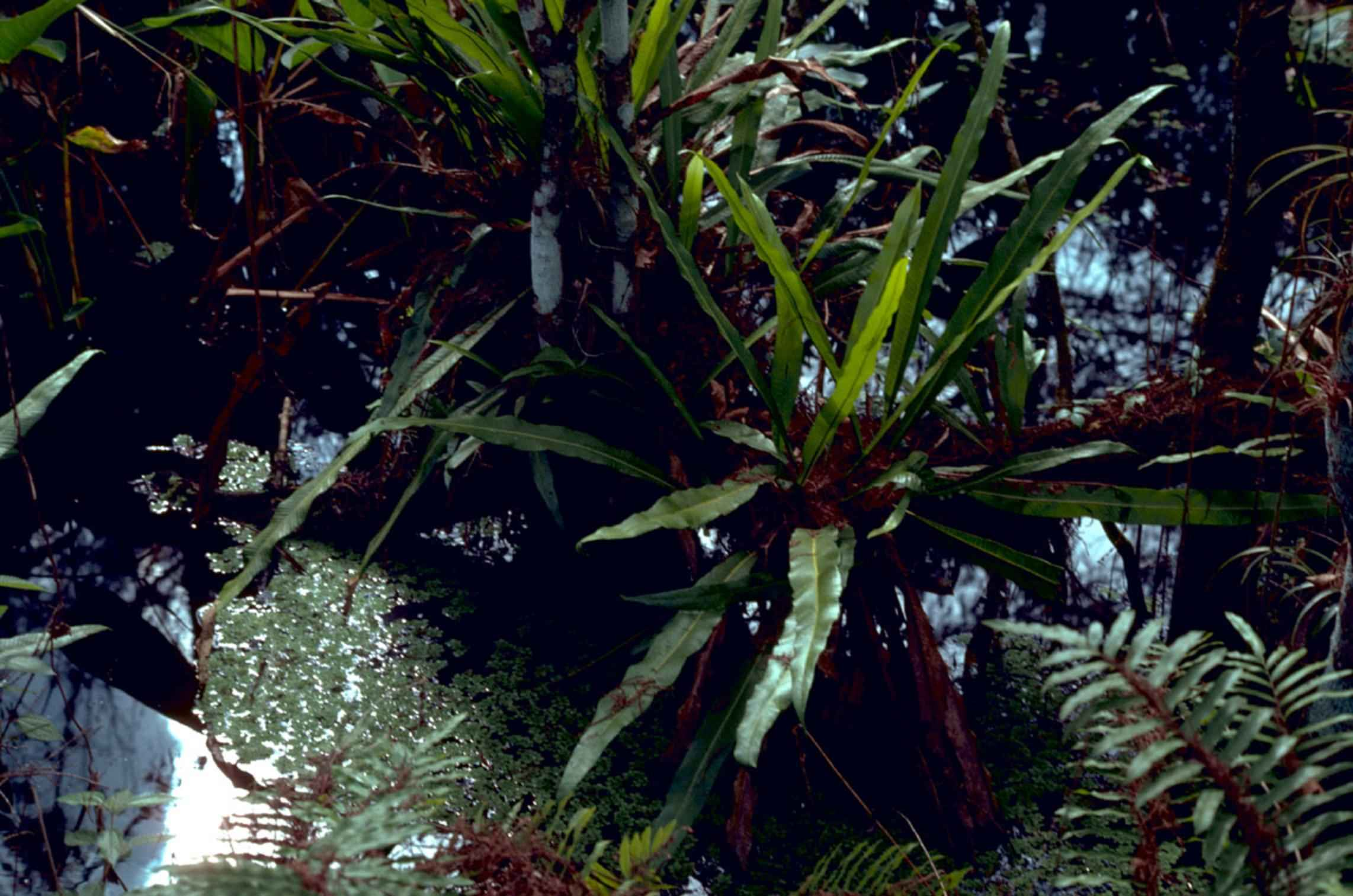 Strap Fern Dictymia mckeei Tindale